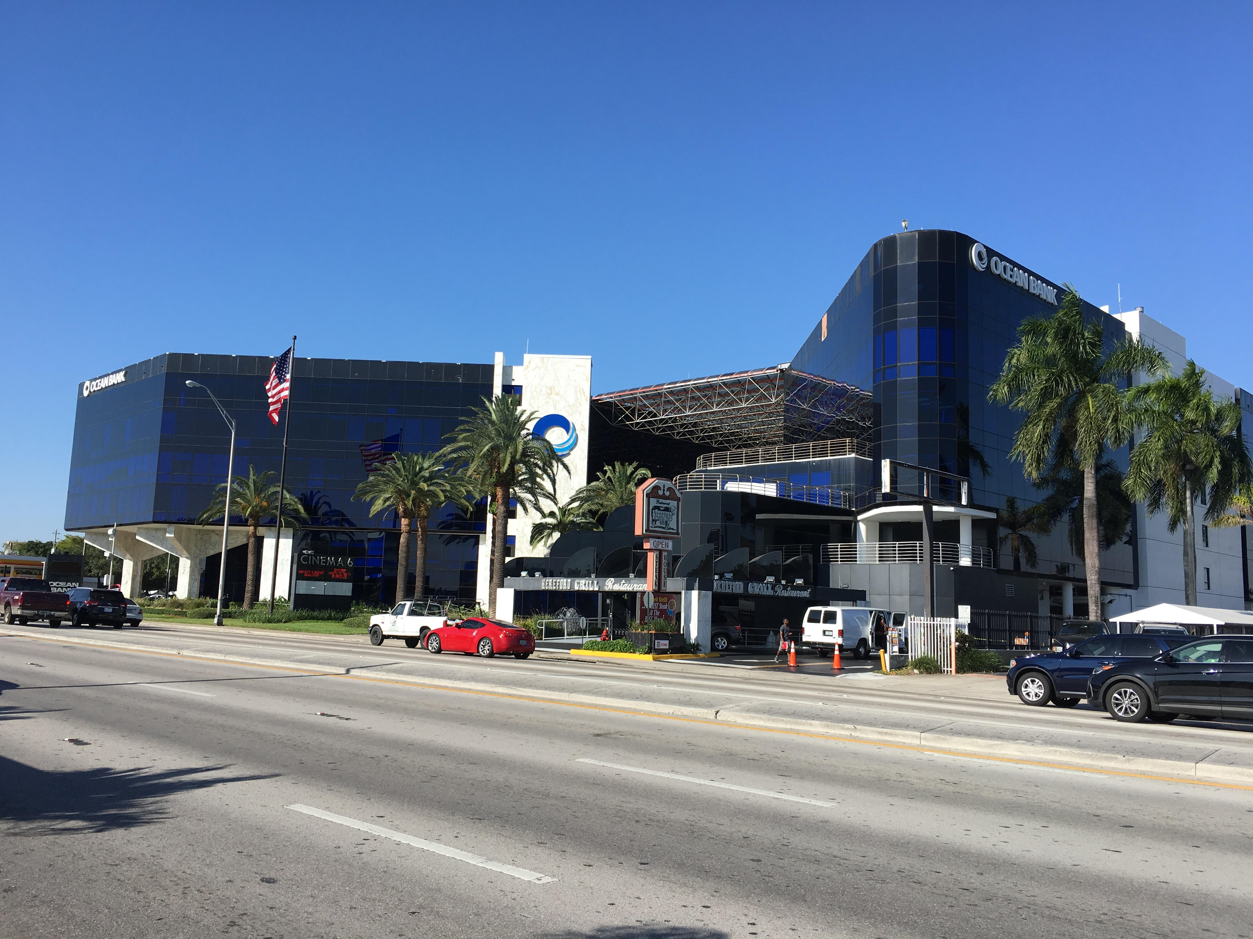 Headquarters of Ocean Bank and LeJeune Cinema 6.